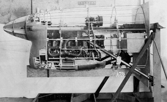 Mockup of the Bell XP-77 fighter aircraft showing how the Ranger V-770 engine was installed in the airframe.